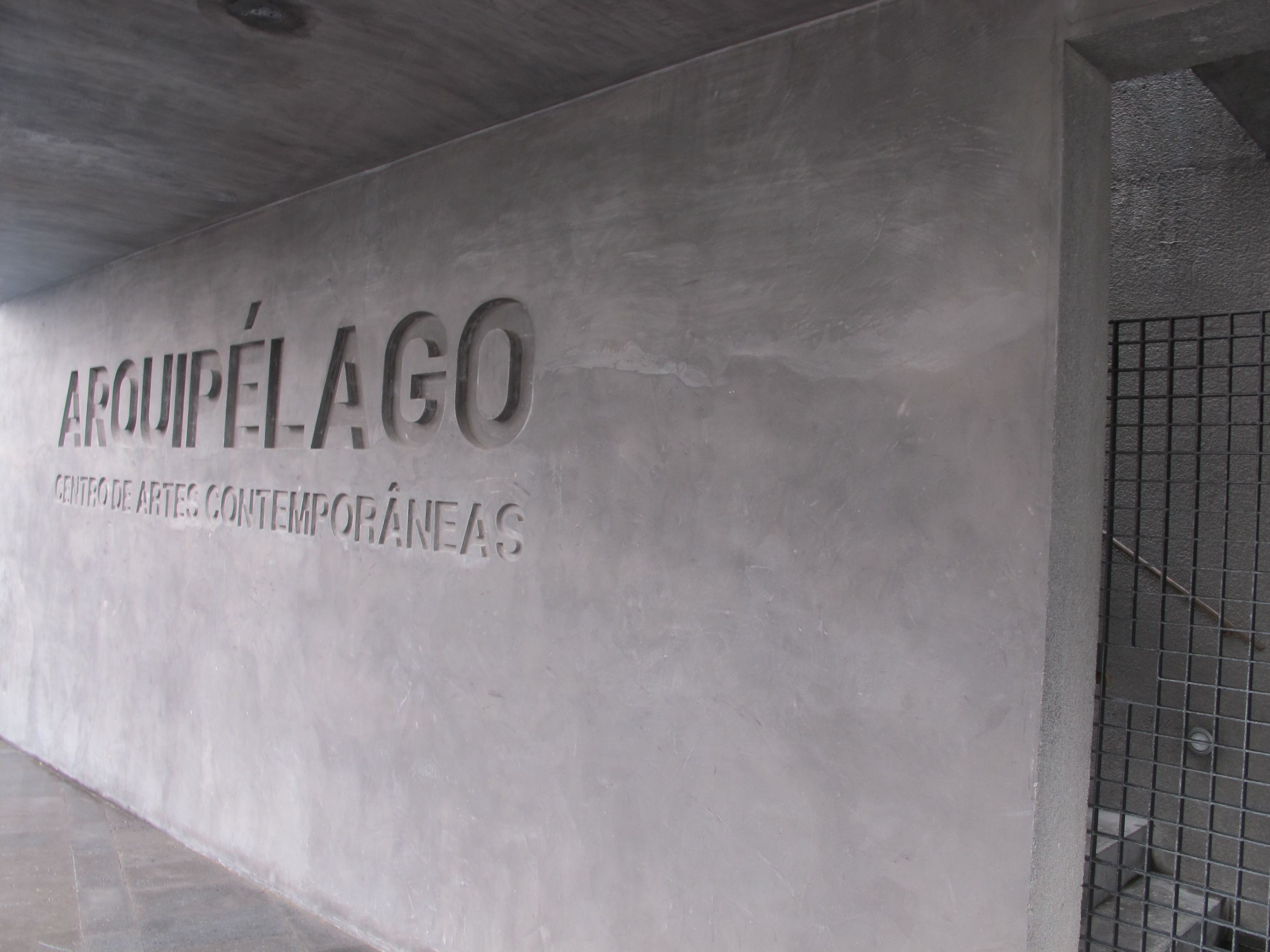 Art Museum Arquipélago - Centro de Artes Contemporâneas